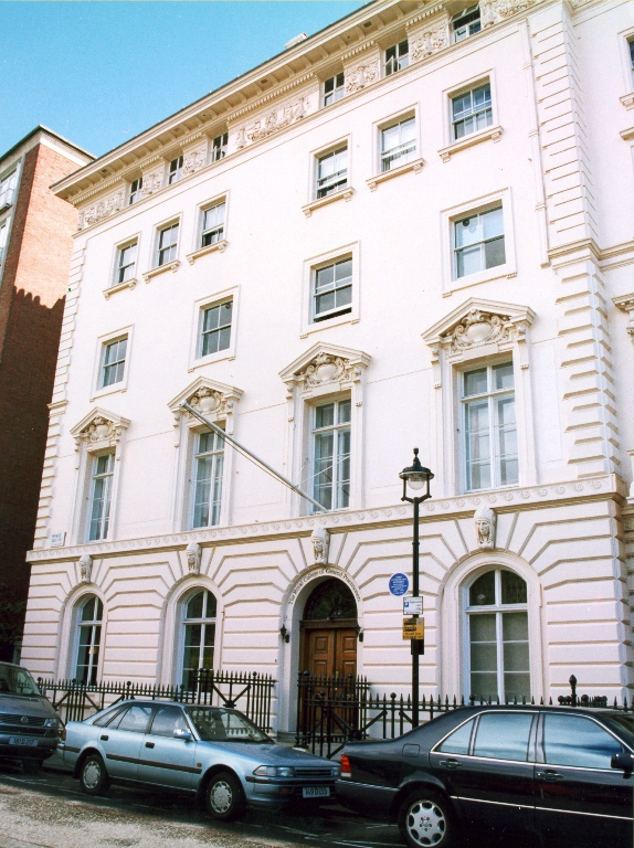 Frontage of 14 Princes Gate in Hyde Park, London - the headquarters of the Royal College of General Practitioners.